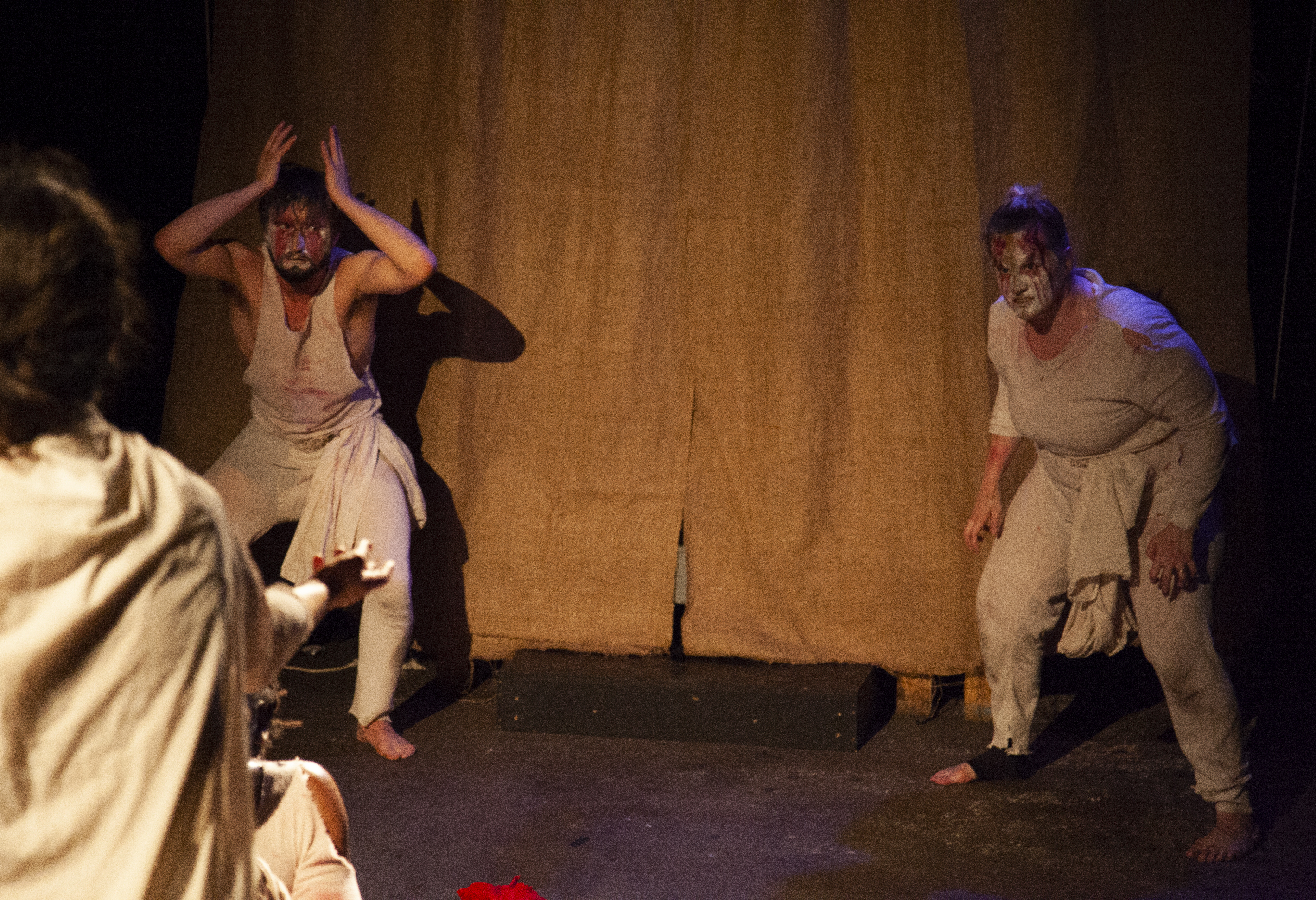 Sam Gibbs and Su Thomas Hendrickson in Oresteia by Aeschylus adapted by Ryan Castalia for Stairwell Theater, 2019 presented at h0l0, Brooklyn